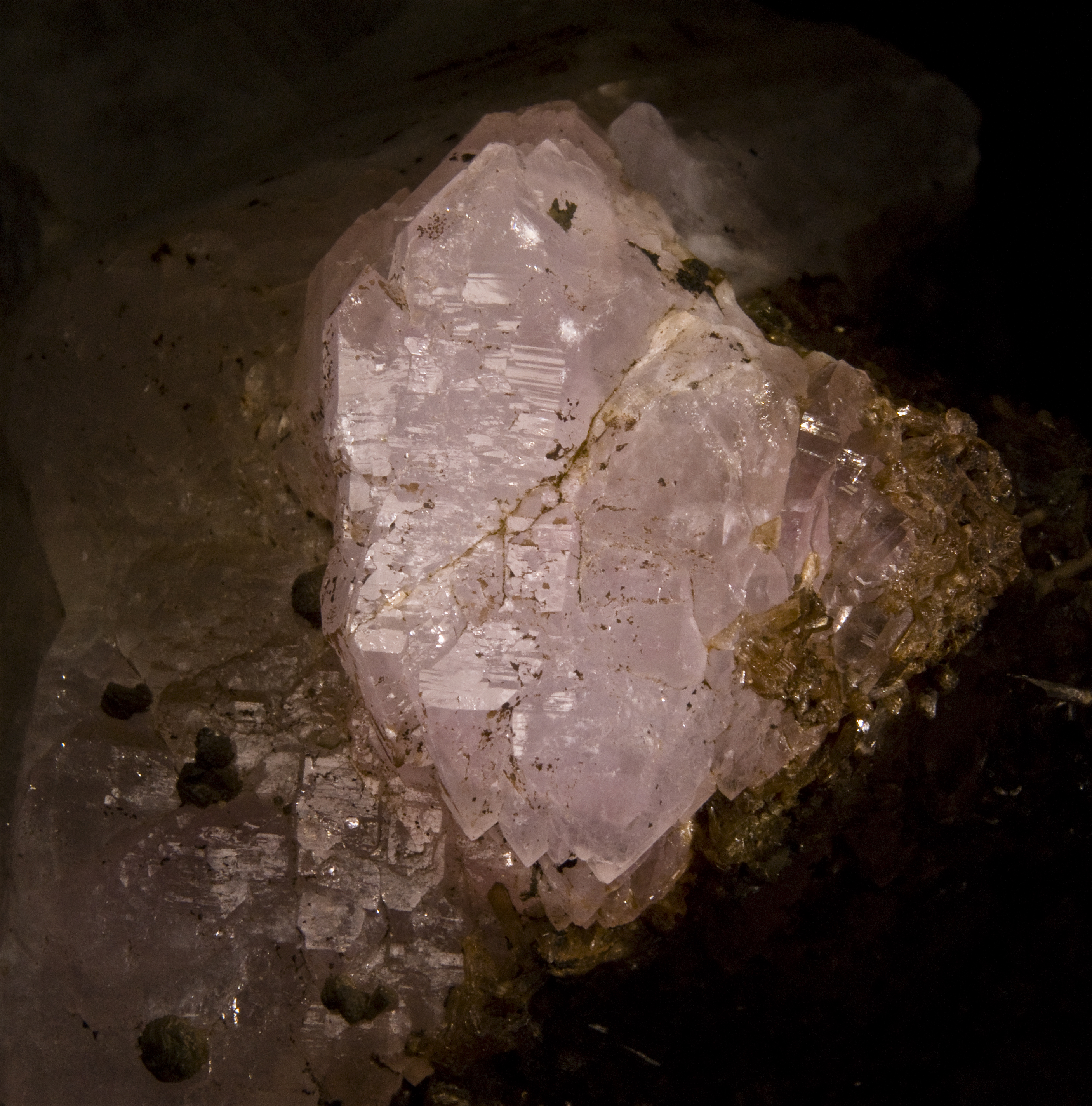 Rose quartz Locality : Galiléia, Doce valley, Minas Gerais, Southeast Region, Brazil Size : View 6cm